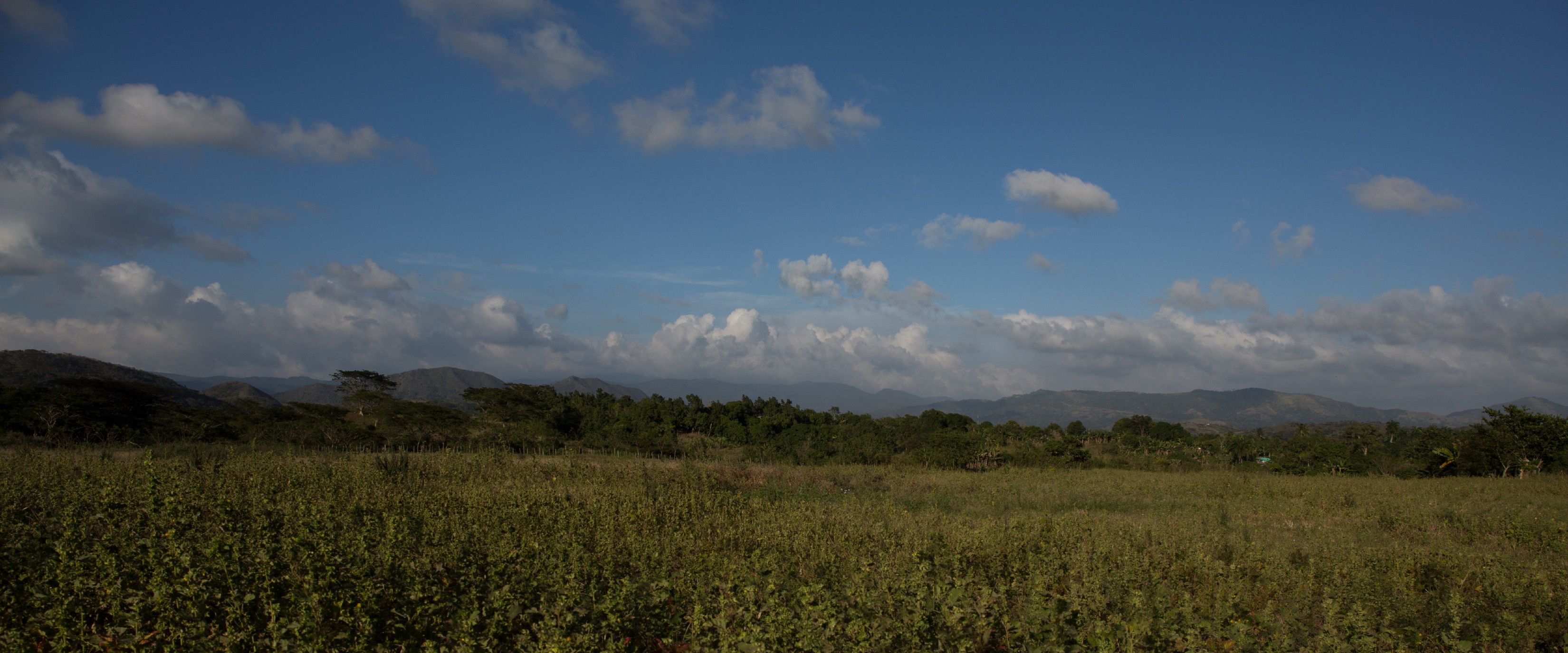 Mayarí Arriba, municipality capital of Segundo Frente, north of Santiago de Cuba. View to the Sierra Cristal National Park